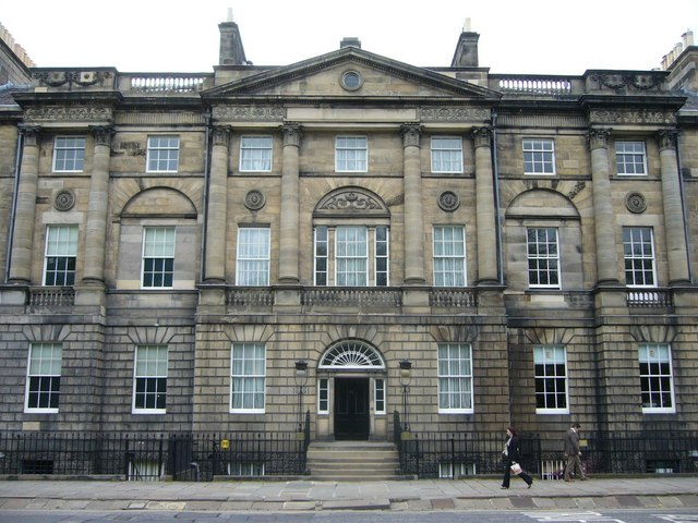 Bute House, Charlotte Square No.6 Charlotte Square is the official residence of the First Minister of the devolved Scottish Government at Holyrood. It is leased by the Bute Trust to the National Trust of Scotland. No. 7 is the Trust-owned 'Georgian House'. The lower floors are furnished in period-style from the time Charlotte Square was built (c.1800). The upper floor is the official residence of the Moderator of the Church of Scotland during his year in office.